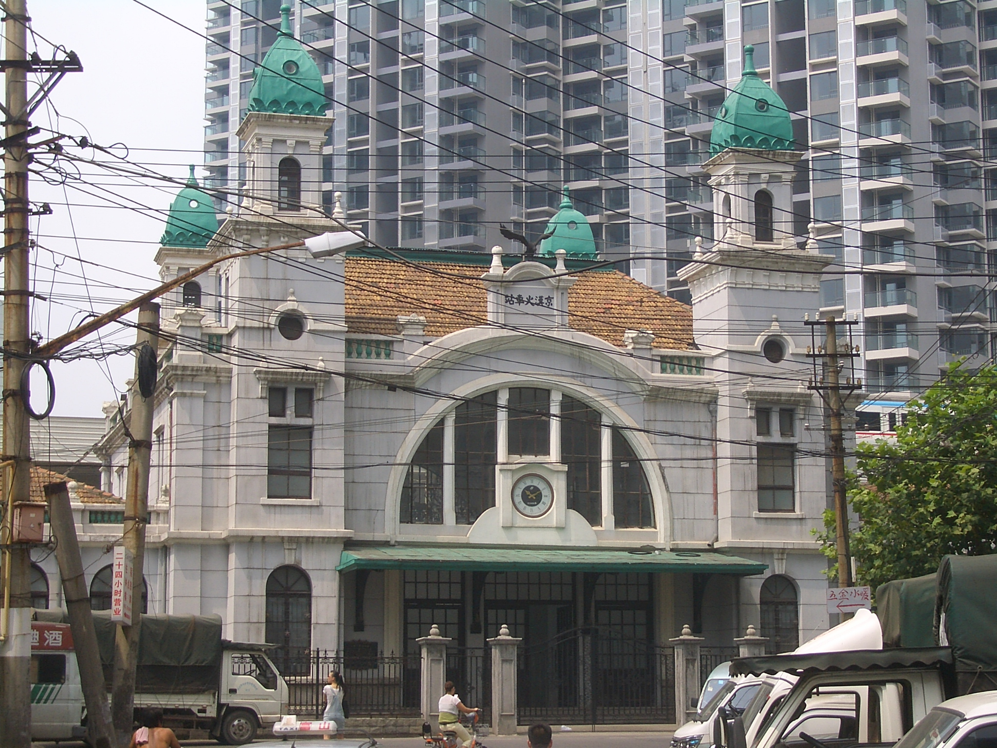 The disused Hankou Dazhimen Station - the original terminal of the Beijing to Hankou Railway